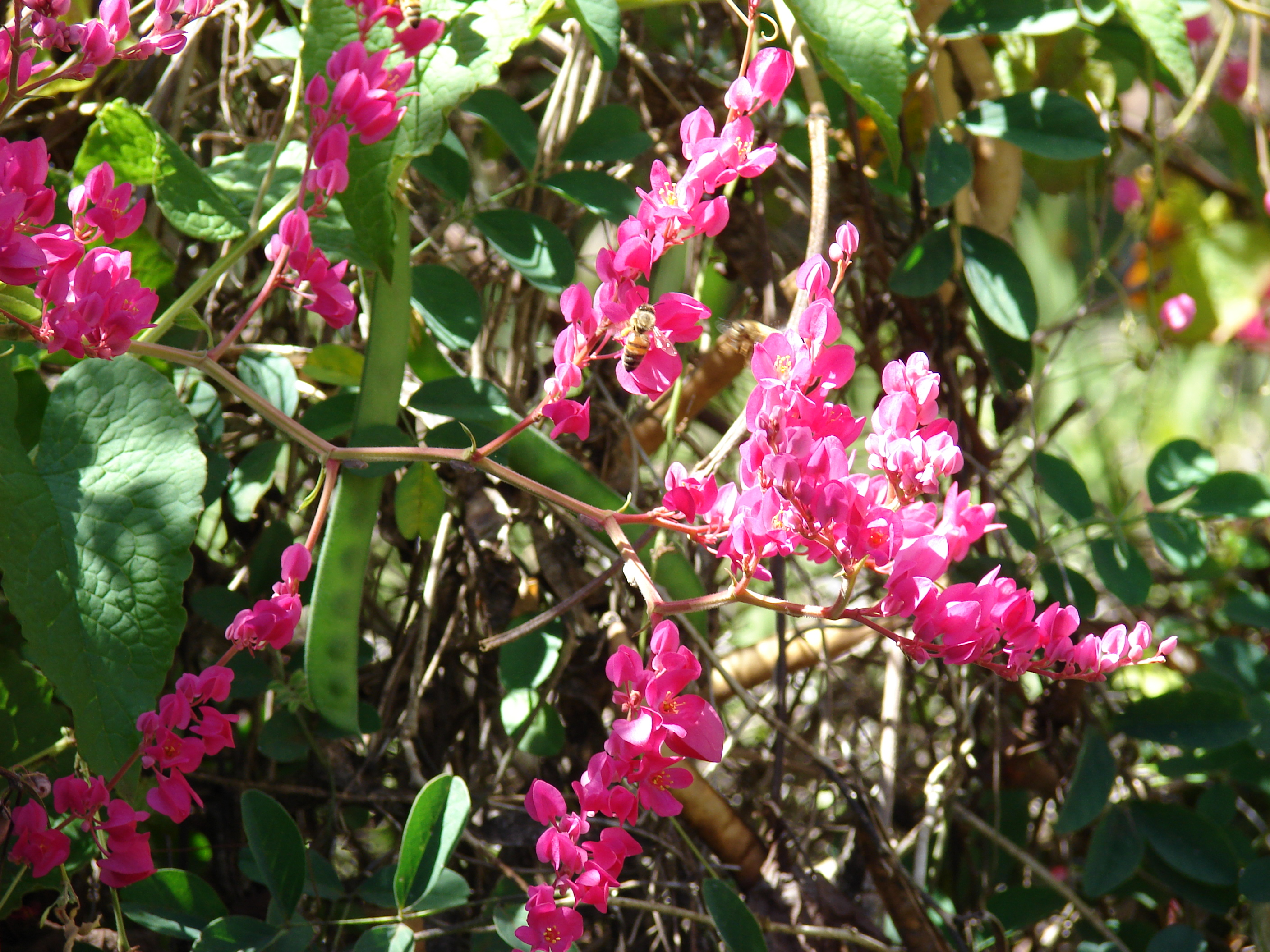 Antigonon leptopus (pink flowers). Location: Maui, Enchanting Floral Gardens of Kula